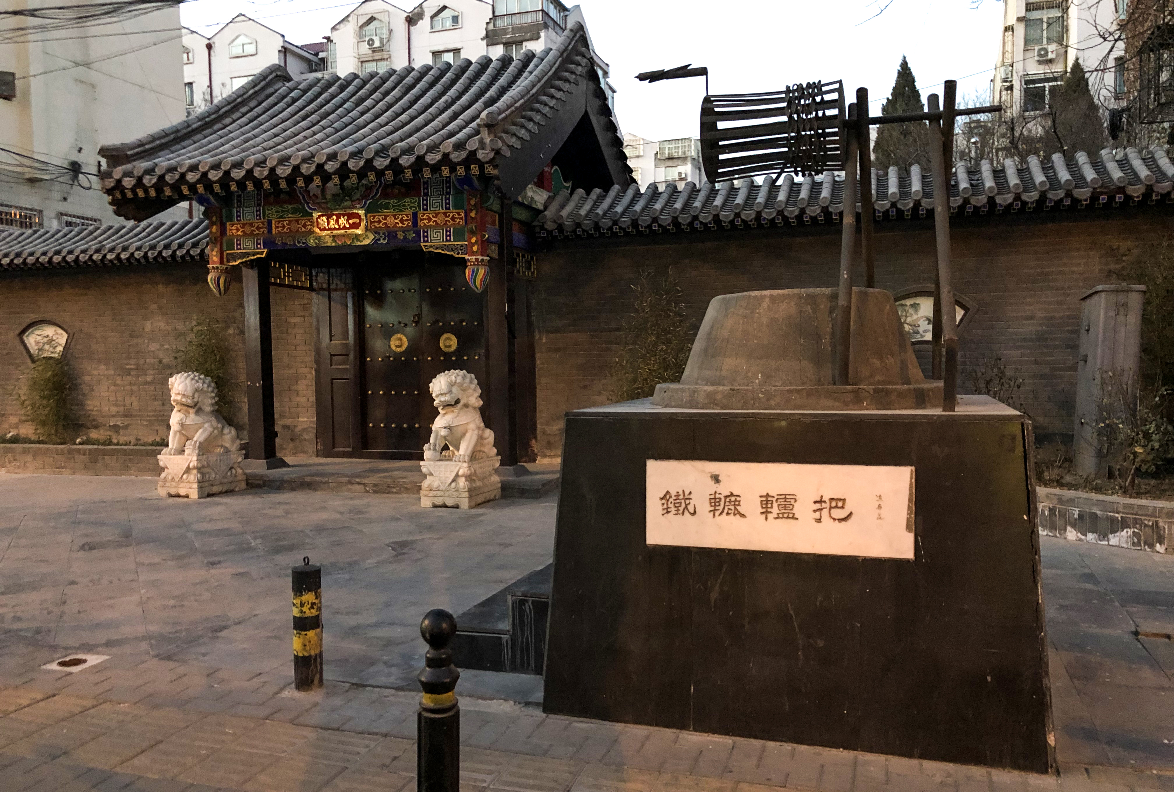 Written as "铁辘轳把", literally "iron windlass handle".